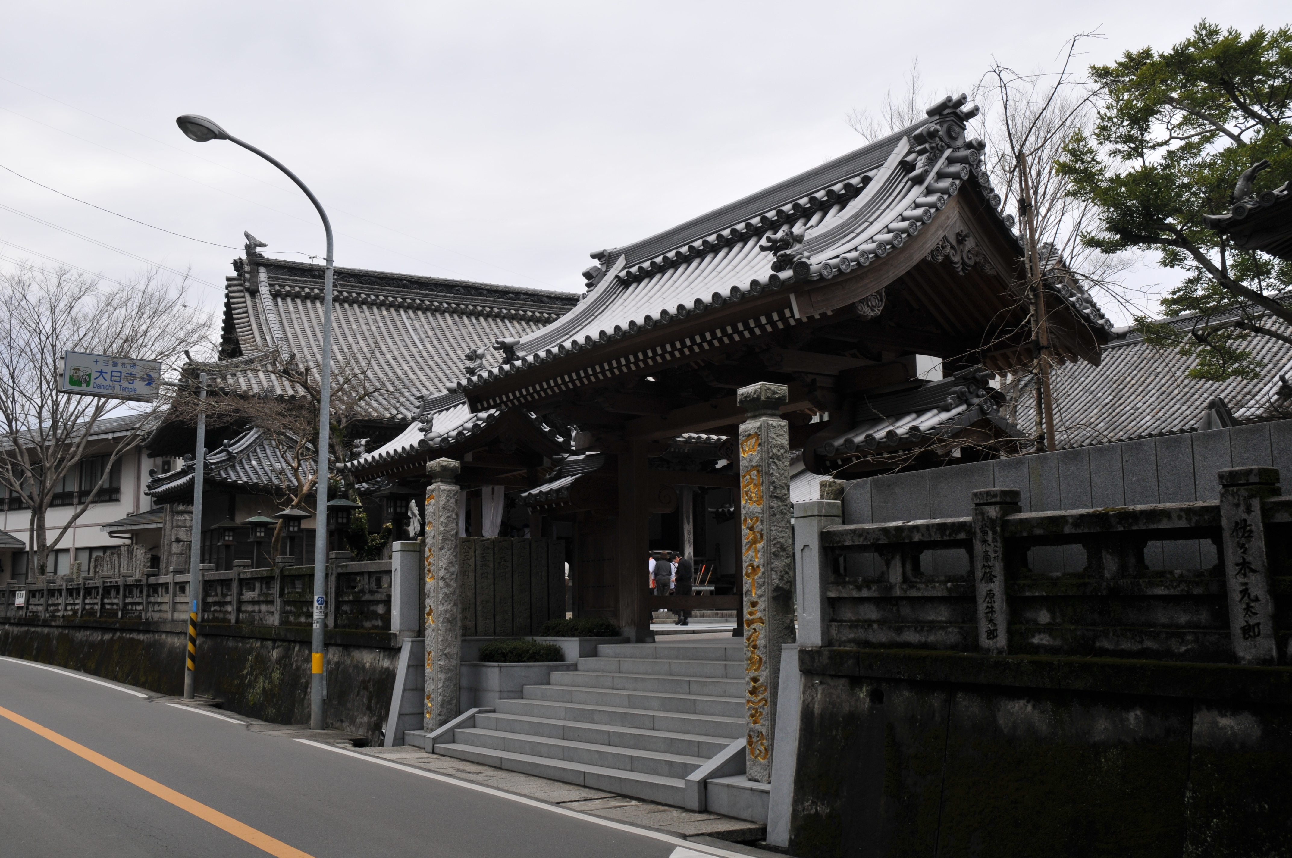 Dainichi-ji temple